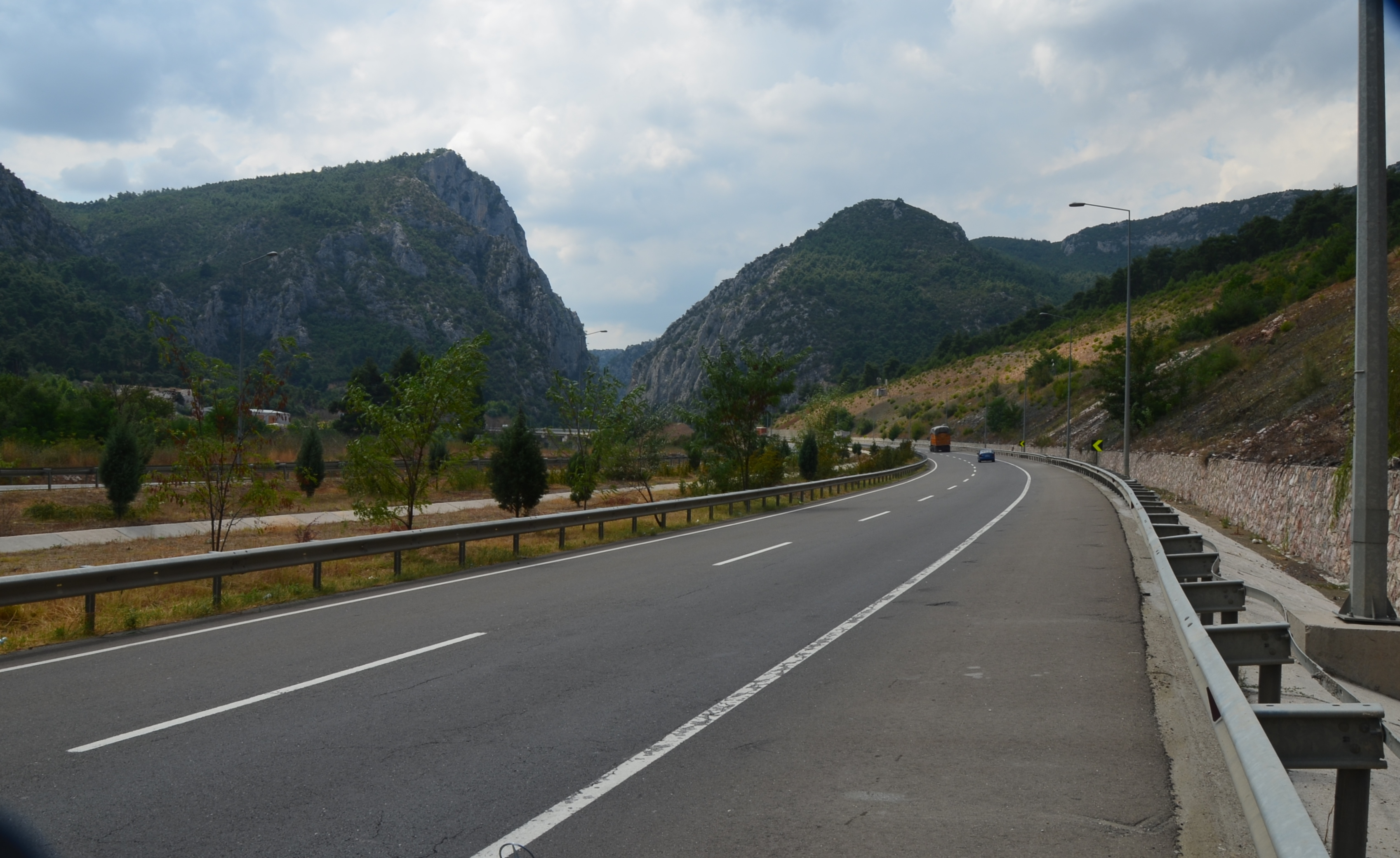 State road D-650 southbound in Bileck Province, Turkey